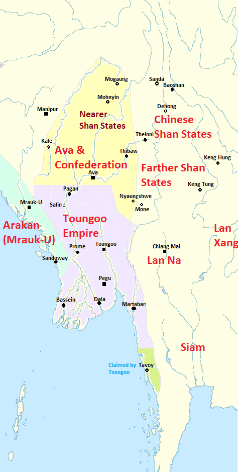 Political Map of Burma (Myanmar) in 1545